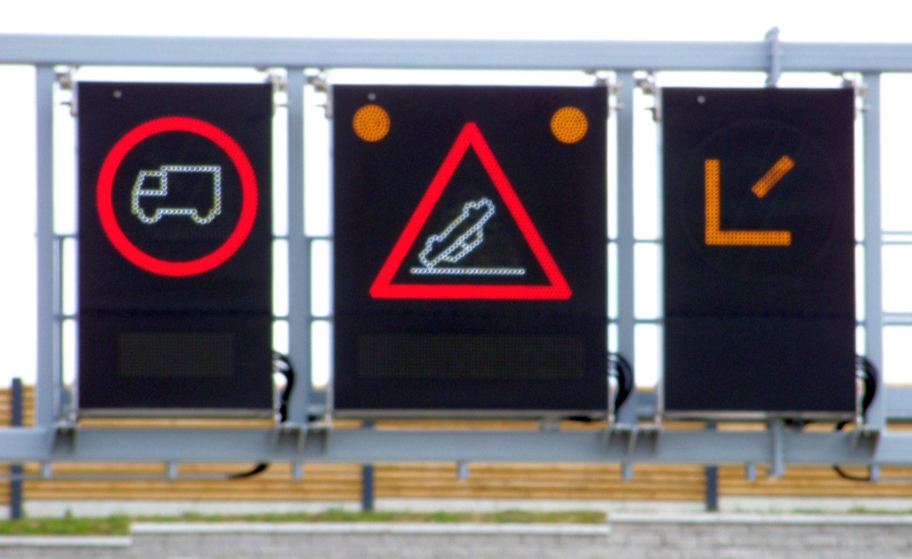 Prague-Cholupice, the Czech Republic. Open Doors Day of the new section of Prague Beltway. Variable road signs.